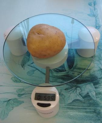 Soehnle kitchen scales, photographed by me in January 2007.